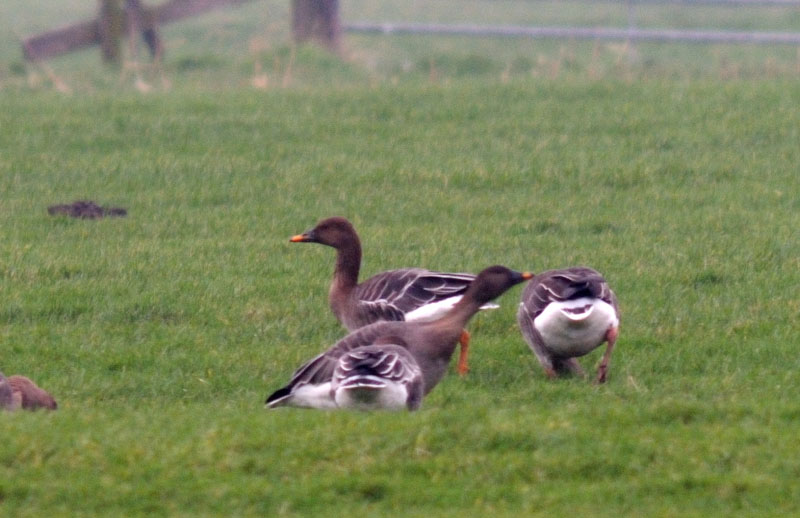 Taiga Bean Goose (Anser fabalis sensu stricto) on background, Tundra Bean Goose (Anser serrirostris) on foreground and Greylag Goose (Anser anser) bird on the right. Spaarndam, Noord-Holland, The Netherlands, Januari 29, 2008 (Arnoud B van den Berg).